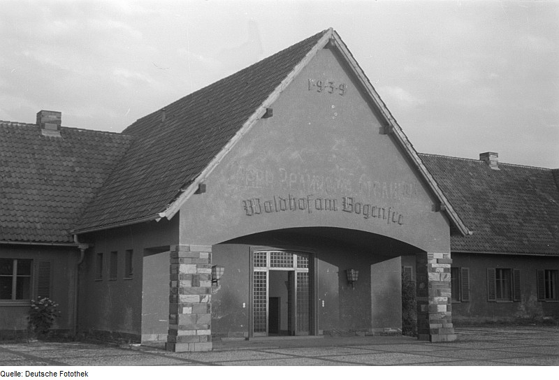 Original image description from the Deutsche Fotothek Sommer 1946